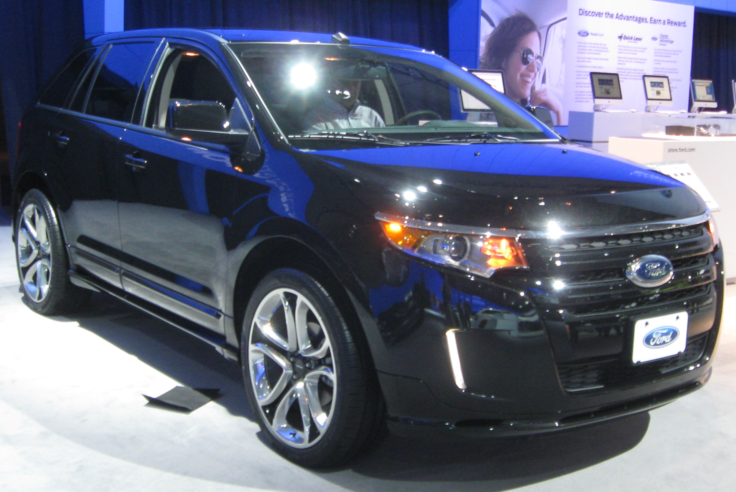 2011 Ford Edge photographed at the 2011 Washington (D.C.) Auto Show.